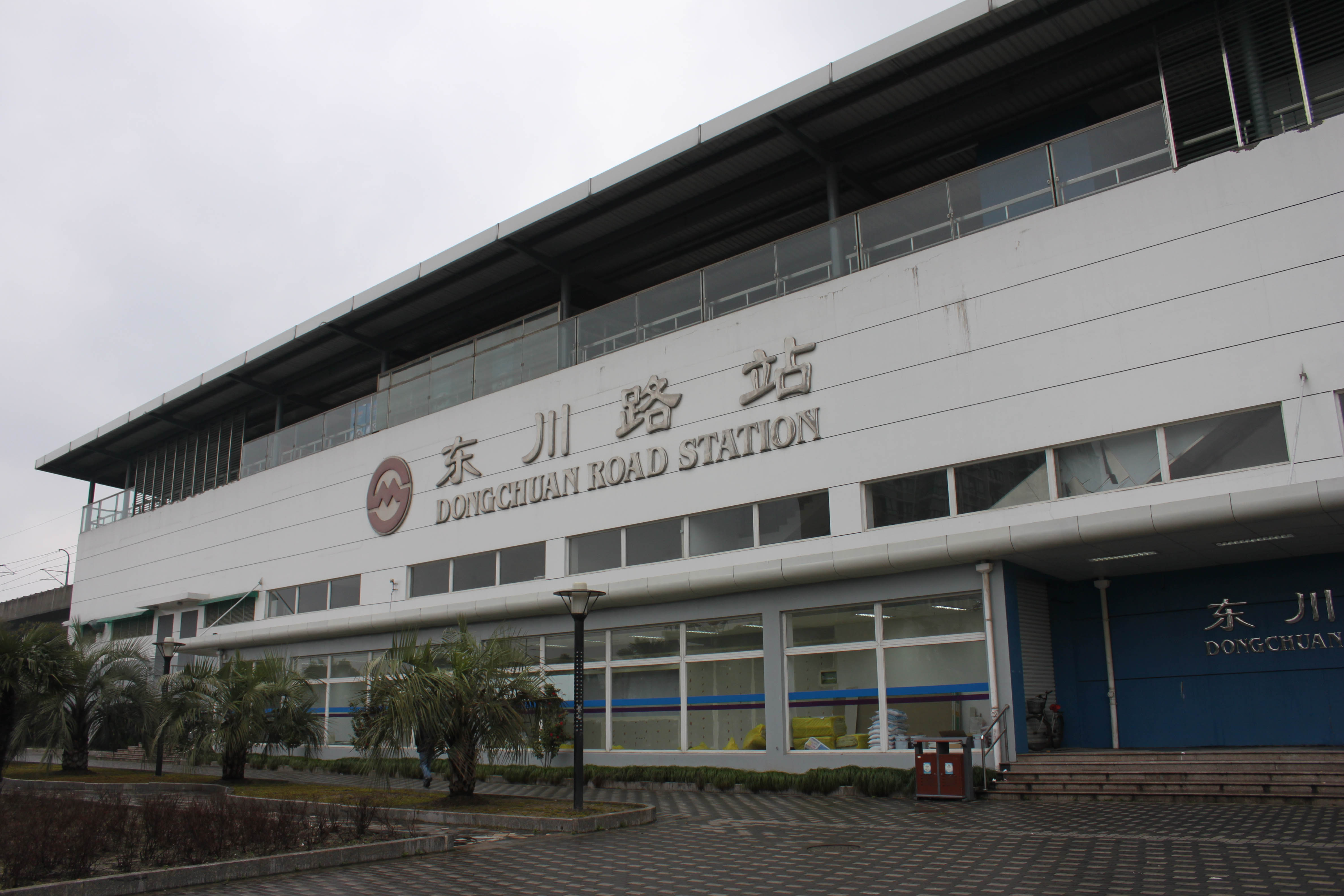 Shanghai Rail Transit Line 5Dongchuan Road Station Outside